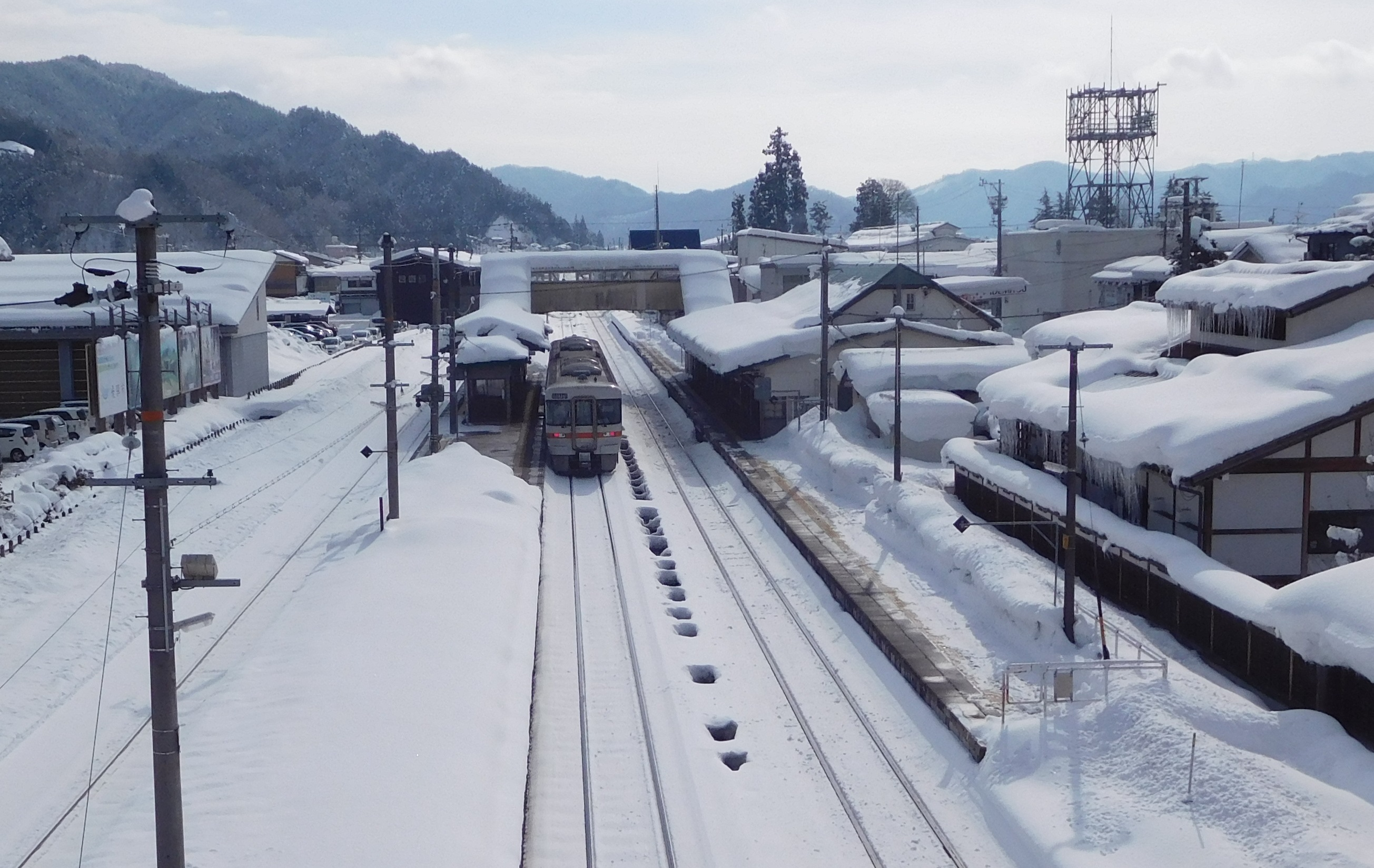 This is the platform of Hida-Furukawa station in Hida, Gifu, Japan. A train was stopping at the same position as one scene of the movie "Your Name."